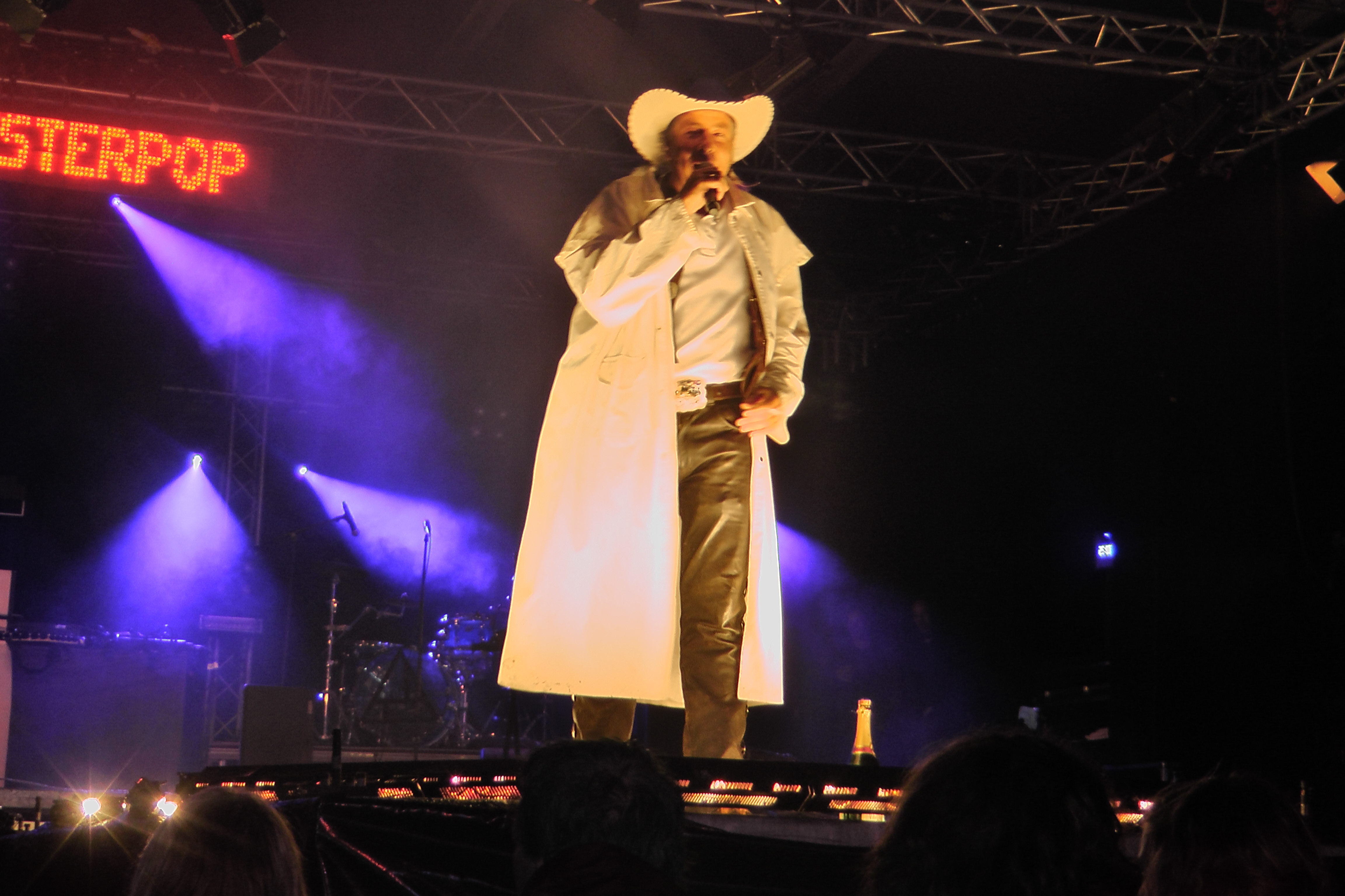 Rene Steijger, presenter of the dutch pop festival Westerpop in Delft, 2011.